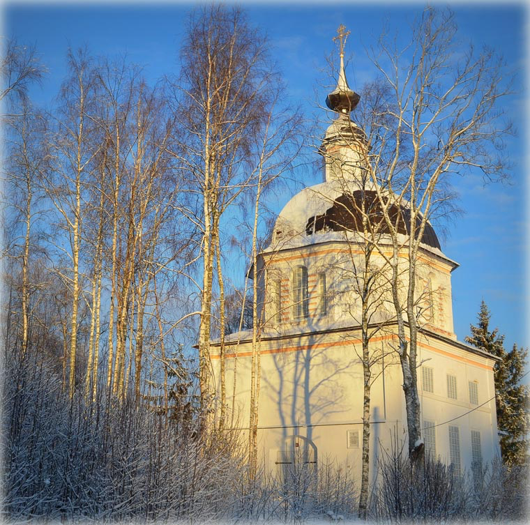 Winter image of Pokrova church